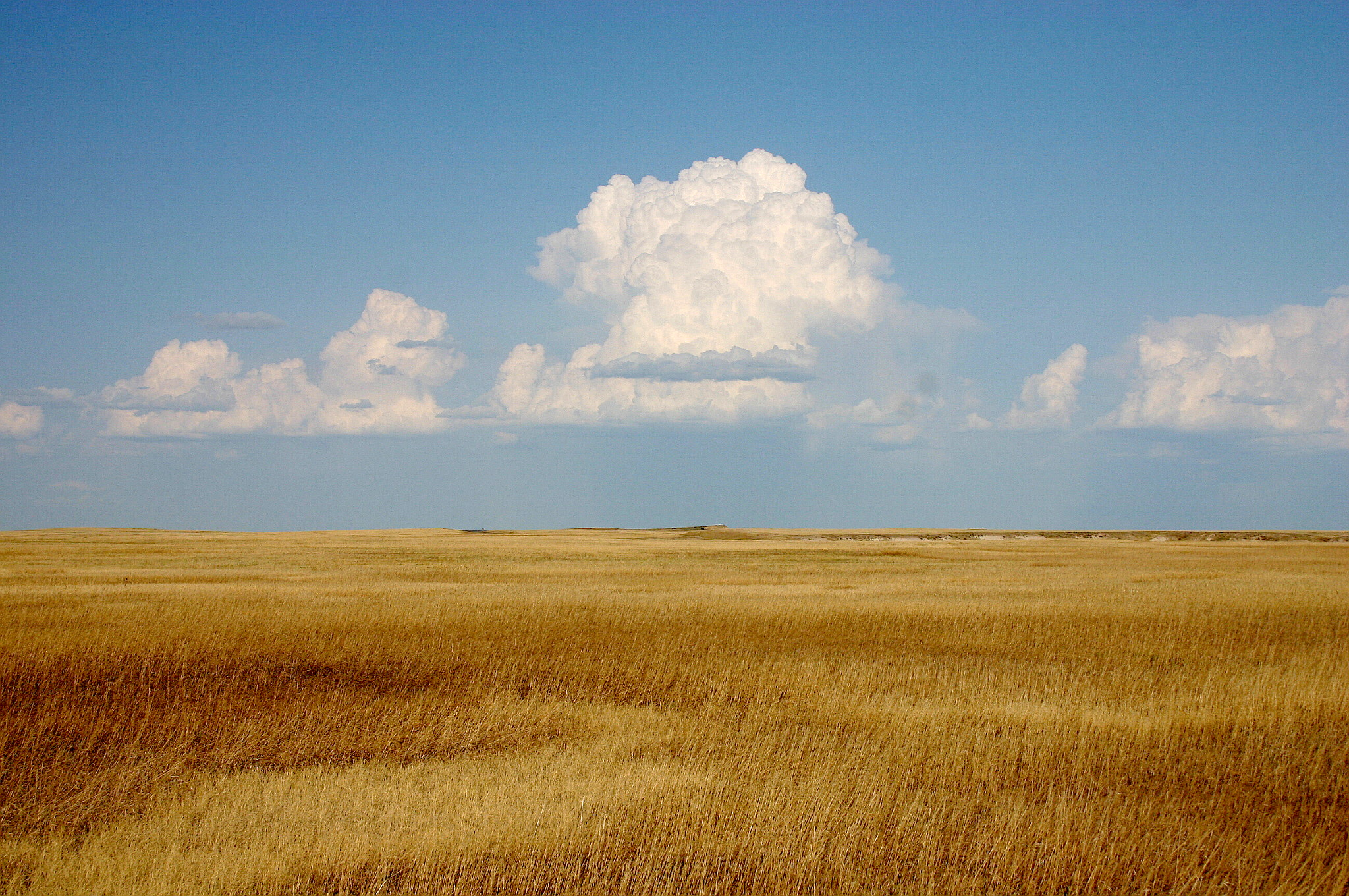 Cumulus clouds towering over yellow prairie. At Prairie Wind Overlook, Badlands National Park, South Dakota, USA